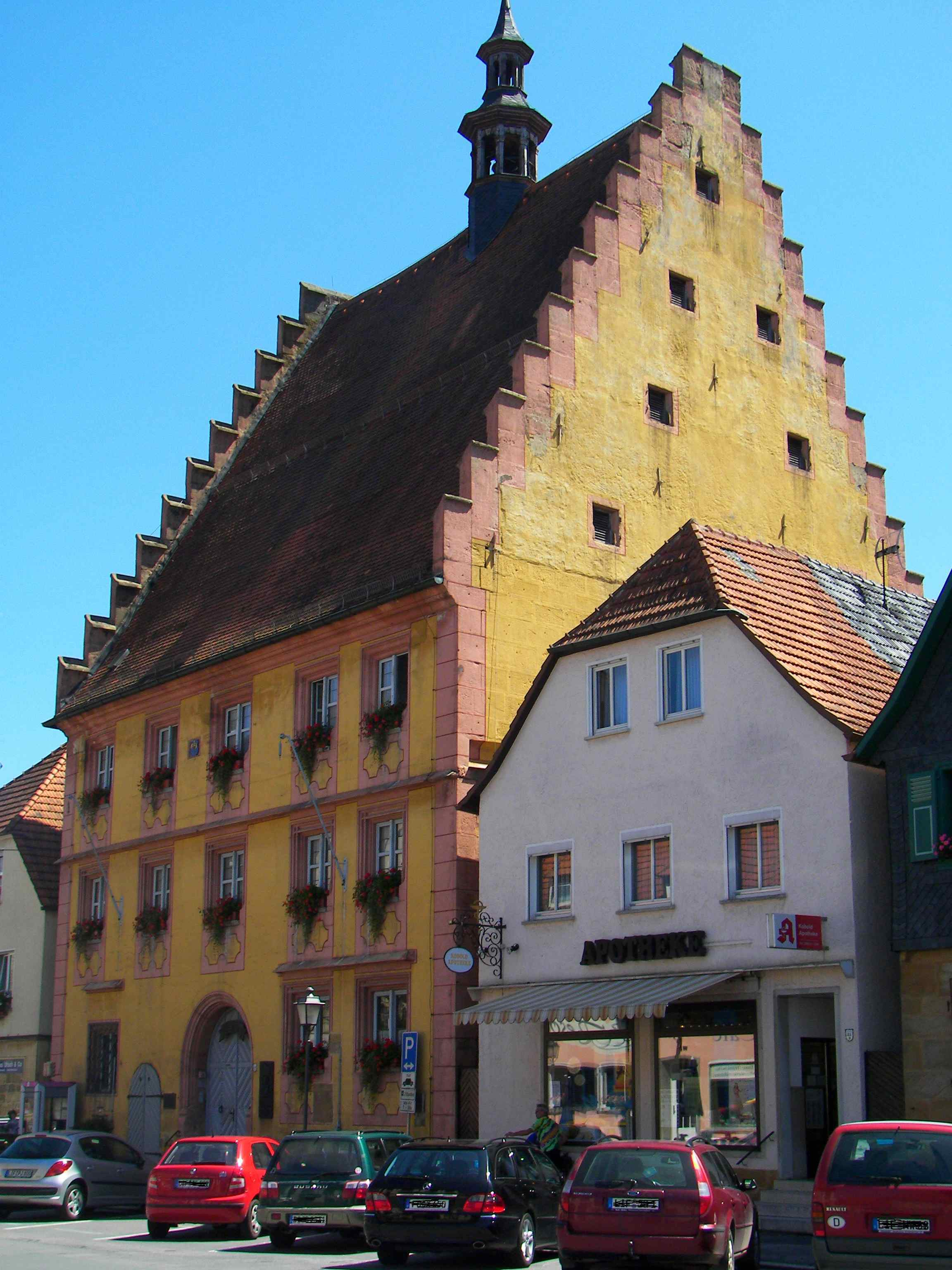 The Townhall of the city of Weismain